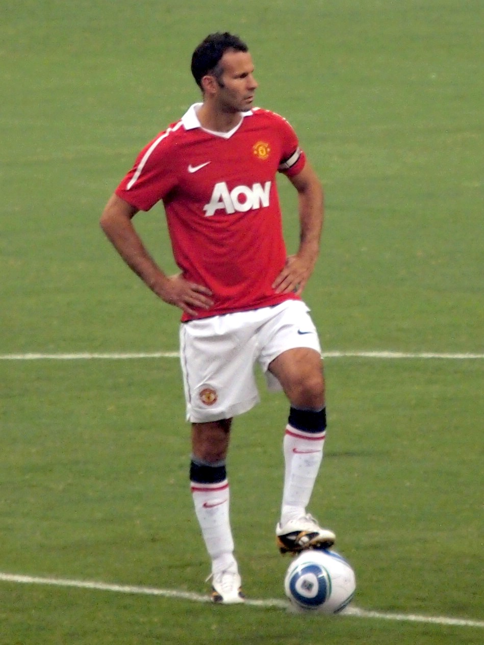 Ryan Giggs of Manchester United during the MLS All Star match between Manchester United and MLS All Stars at Reliant Stadium on July 29, 2010 in Houston, Texas.